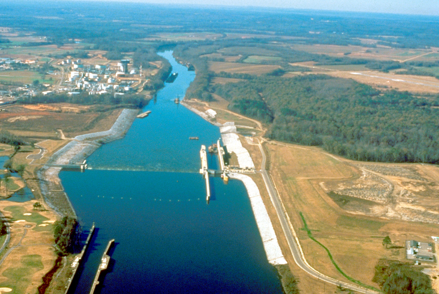 Aerial view of the William Bacon Oliver Lock and Dam on the Black Warrior River in Tuscaloosa, Alabama, USA. The river behind the dam is called Oliver Lake. View is downriver to the west. The lock and dam are named for William Bacon Oliver, a former congressman from the State of Alabama.